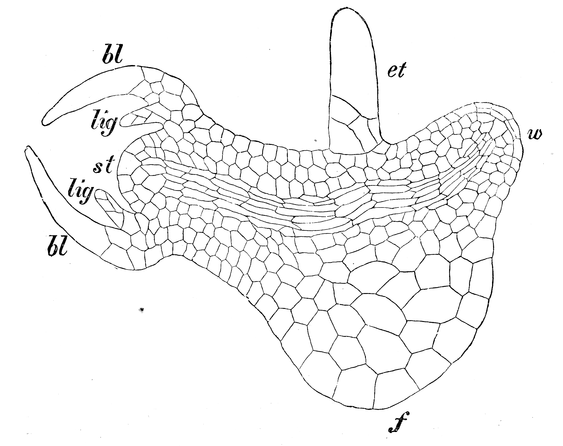 Selaginella martensii. Längsschnitt durch Embryo/longitudinal section through embryo. et = Embryopträger, w = Wurzel/root, f = Fuß/foot, bl = Blätter/leaves, lig = Ligula/ligule, st = Stammscheitel/apex. nach Pfeffer